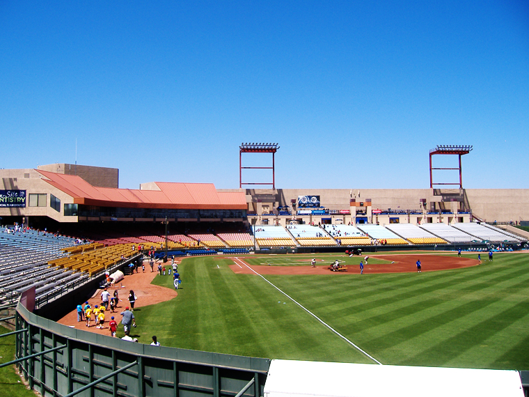 Cashman Field in Las Vegas, NV. Home of the Las Vegas 51s.